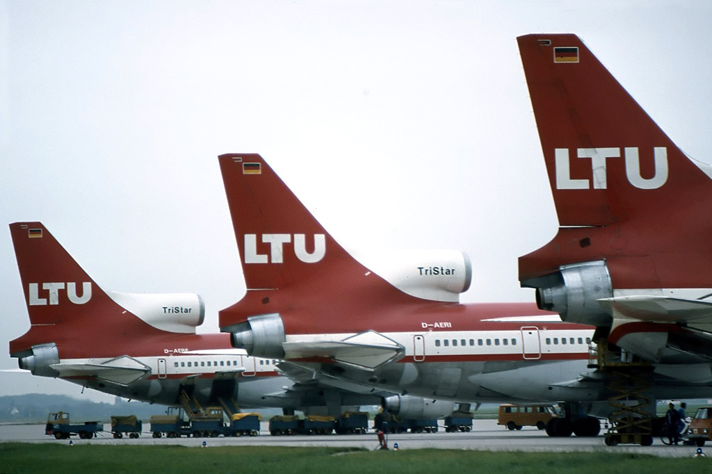 3 x LTU International Lockheed TriStars at Düsseldorf Airport